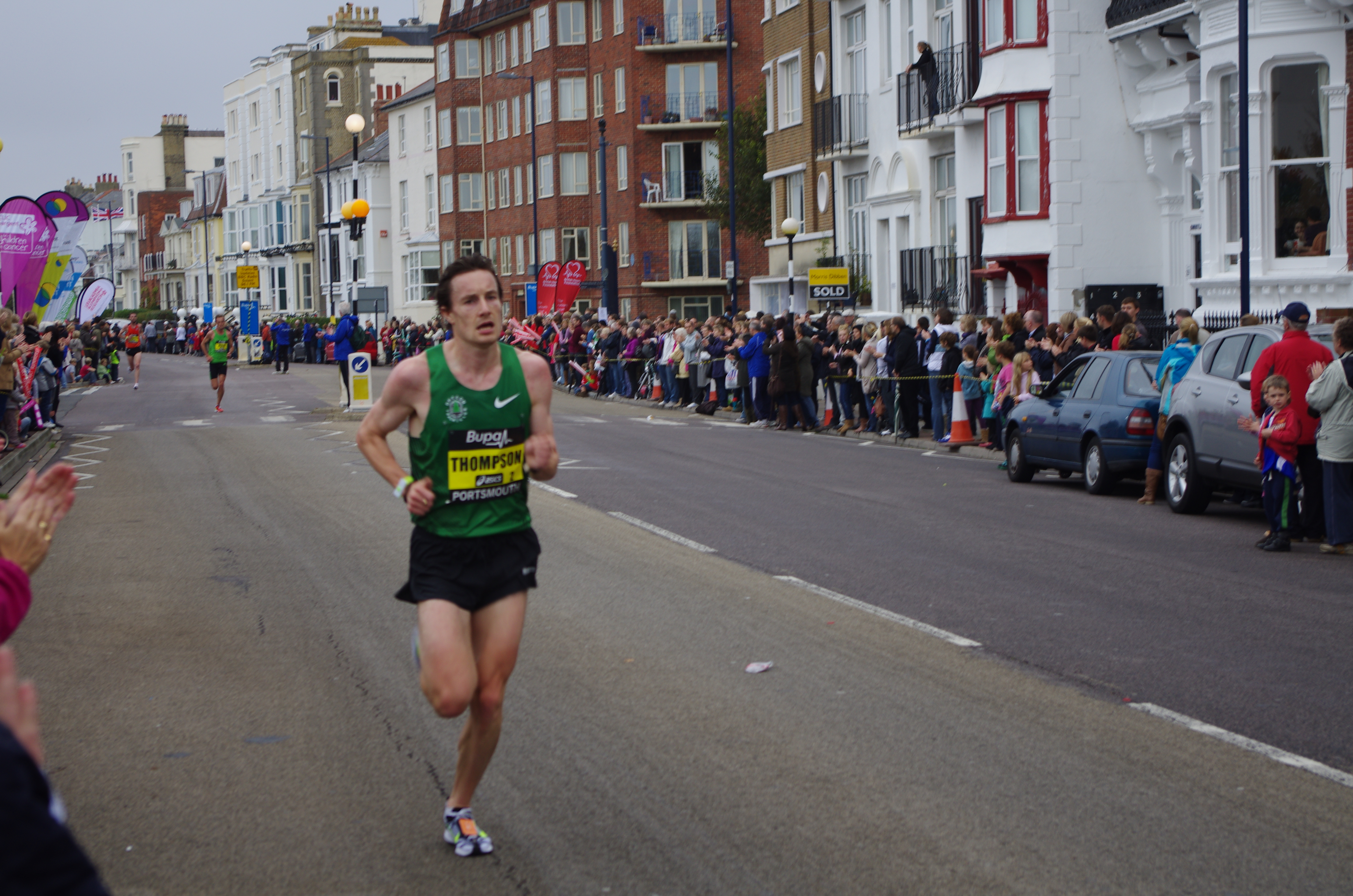 Chris Thompson just short of the 6 mile marker. He came fourth. Great South Run, 30 October 2011, Portsmouth.